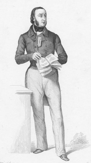 French engineer and politician Michel Alcan (1801-1877) at the National Assembly in 1848.